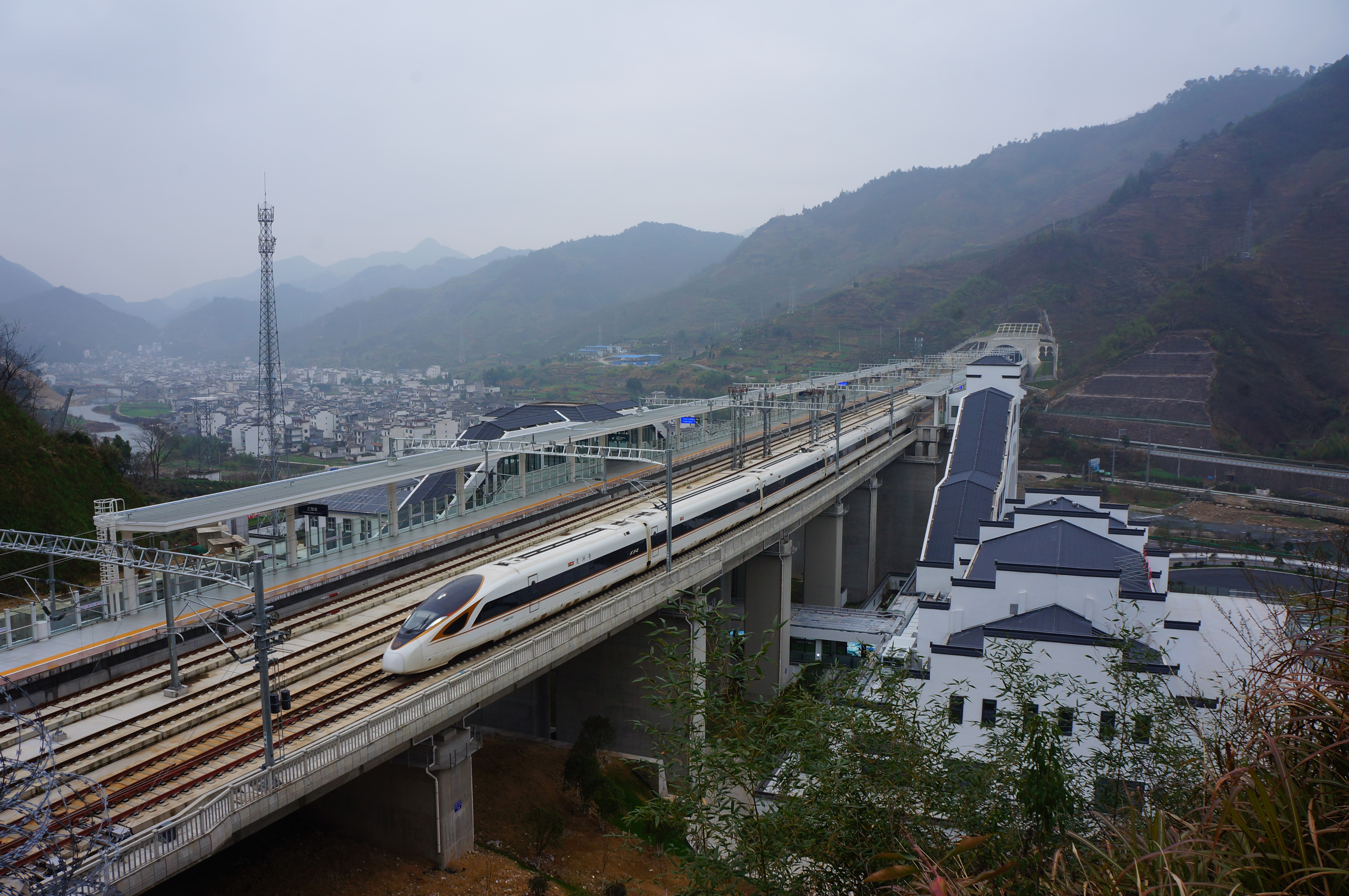 G7192 from Huangshanbei to Nanjingnan